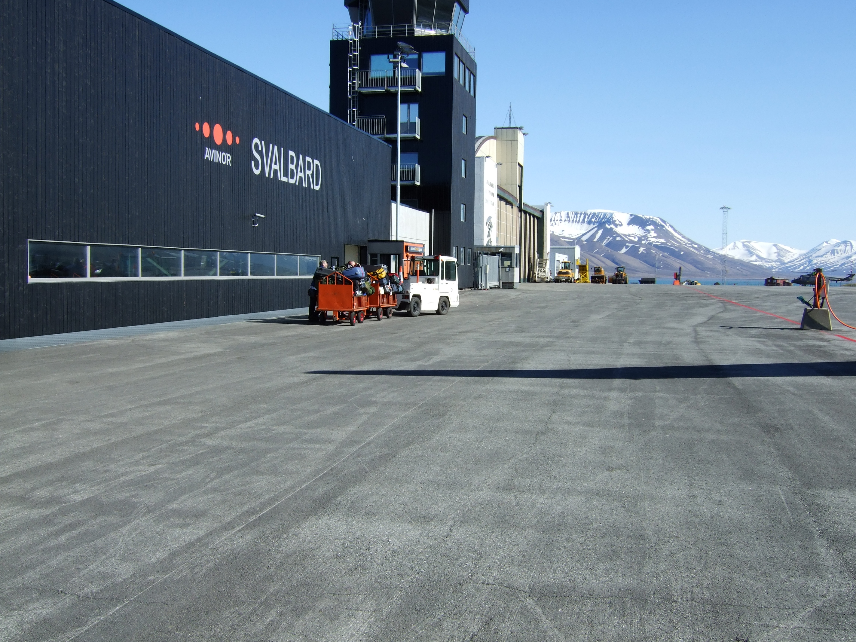 Svalbard Airport, Longyear in Norway